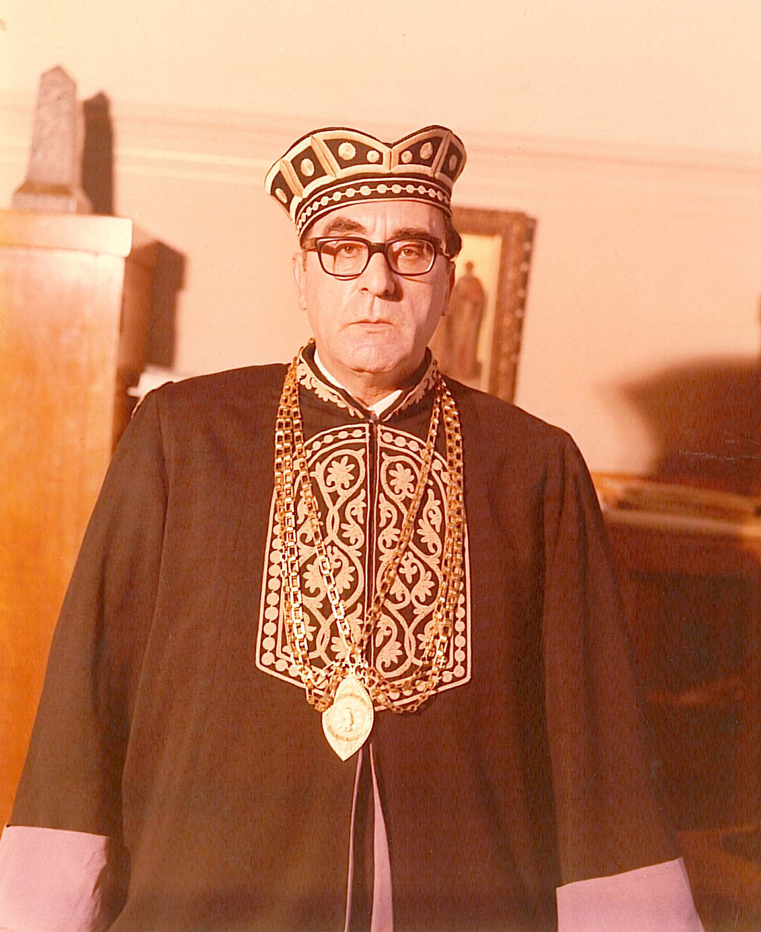 The Theological School of Athens